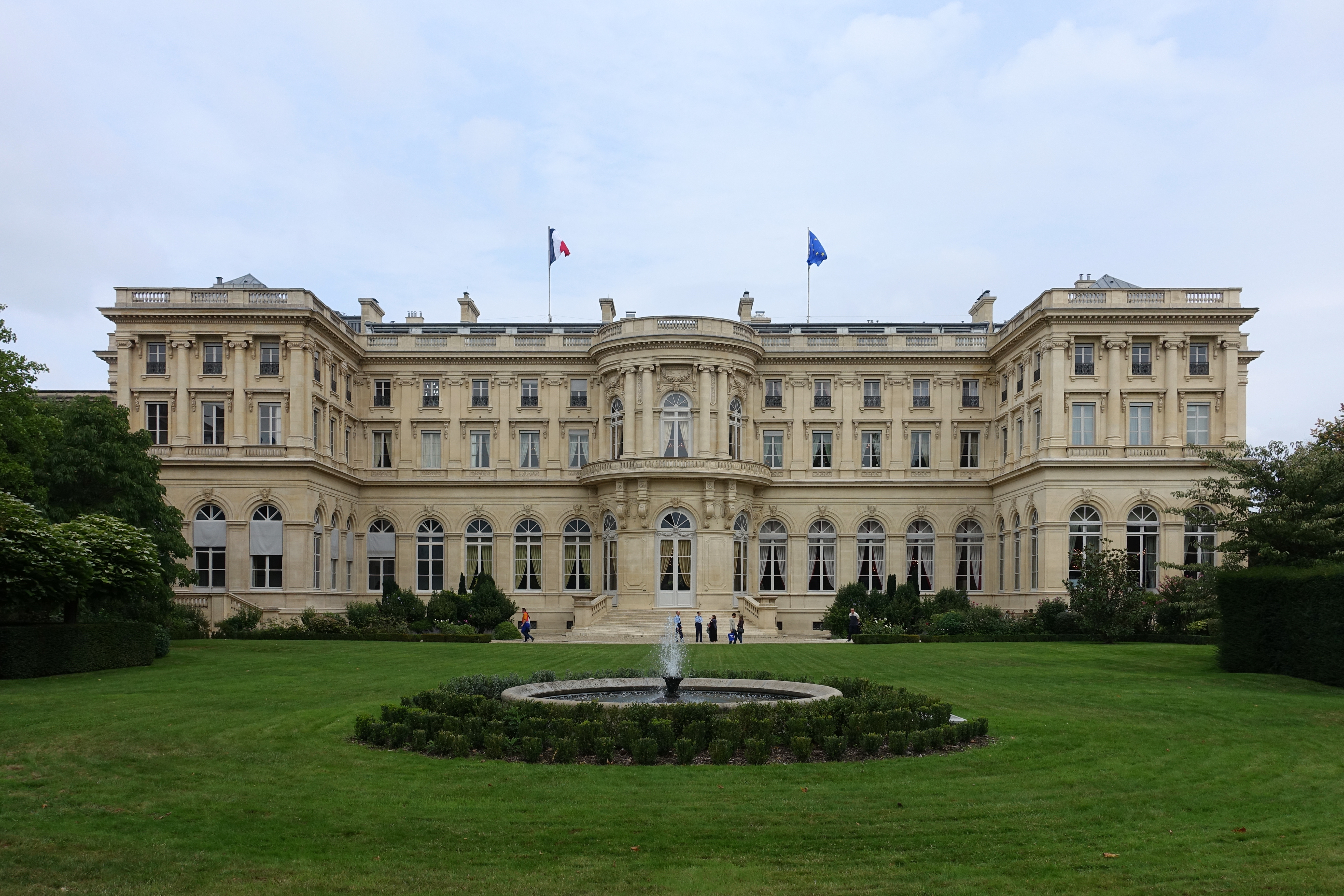 Garden @ Quai d’Orsay @ Ministry of Foreign Affairs @ Paris